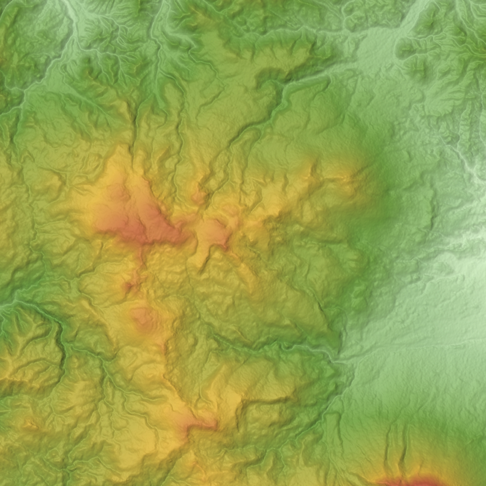 Hachimantai Volcano Group in the border between Iwate and Akita Prefectures, Honshu, Japan.